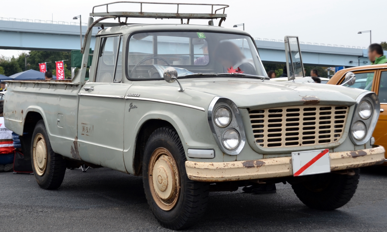 Mitsubishi Jupiter Junior